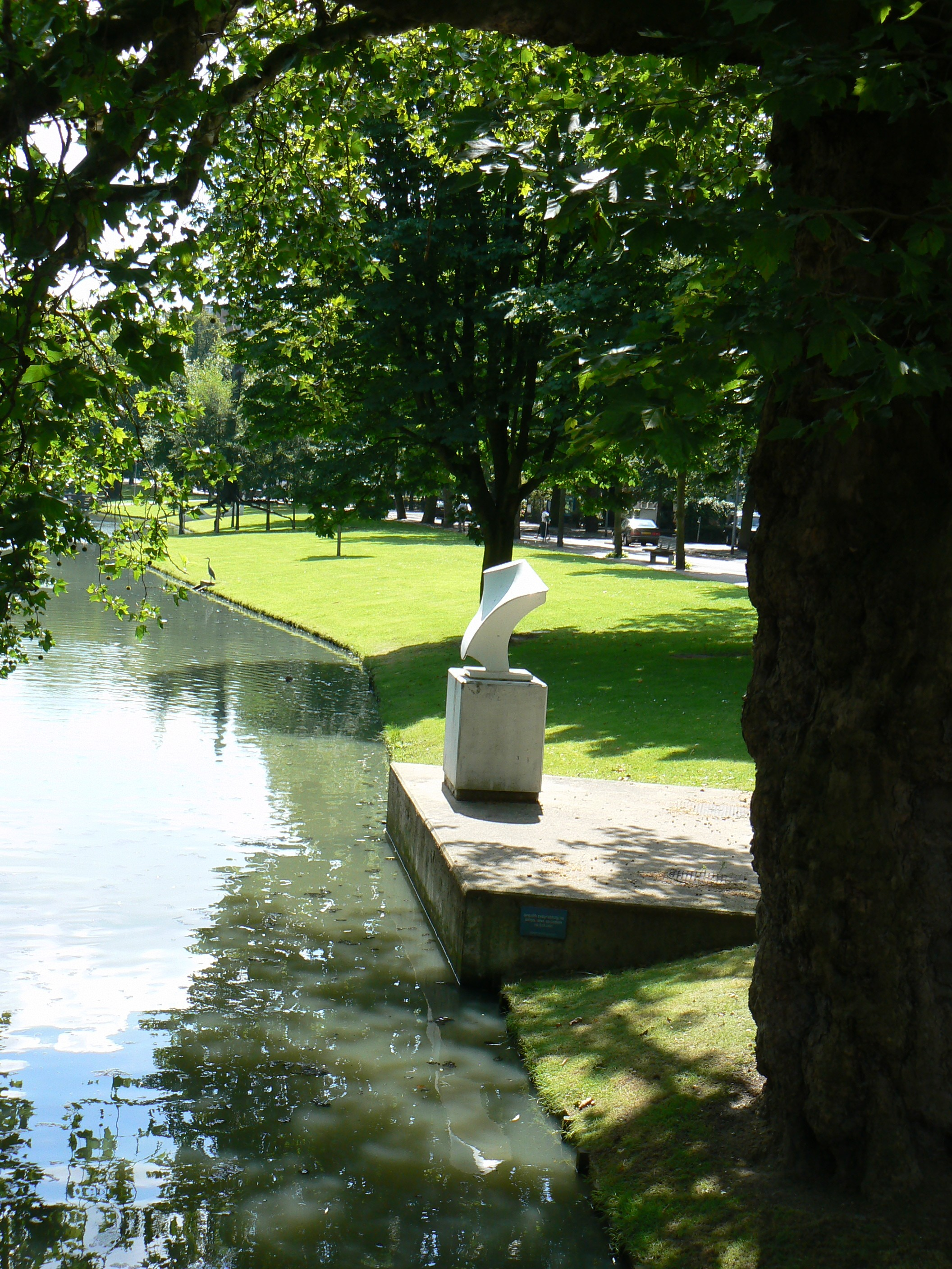 sculptures Westersingel: John Blake (2000) in Rotterdam/The Netherlands